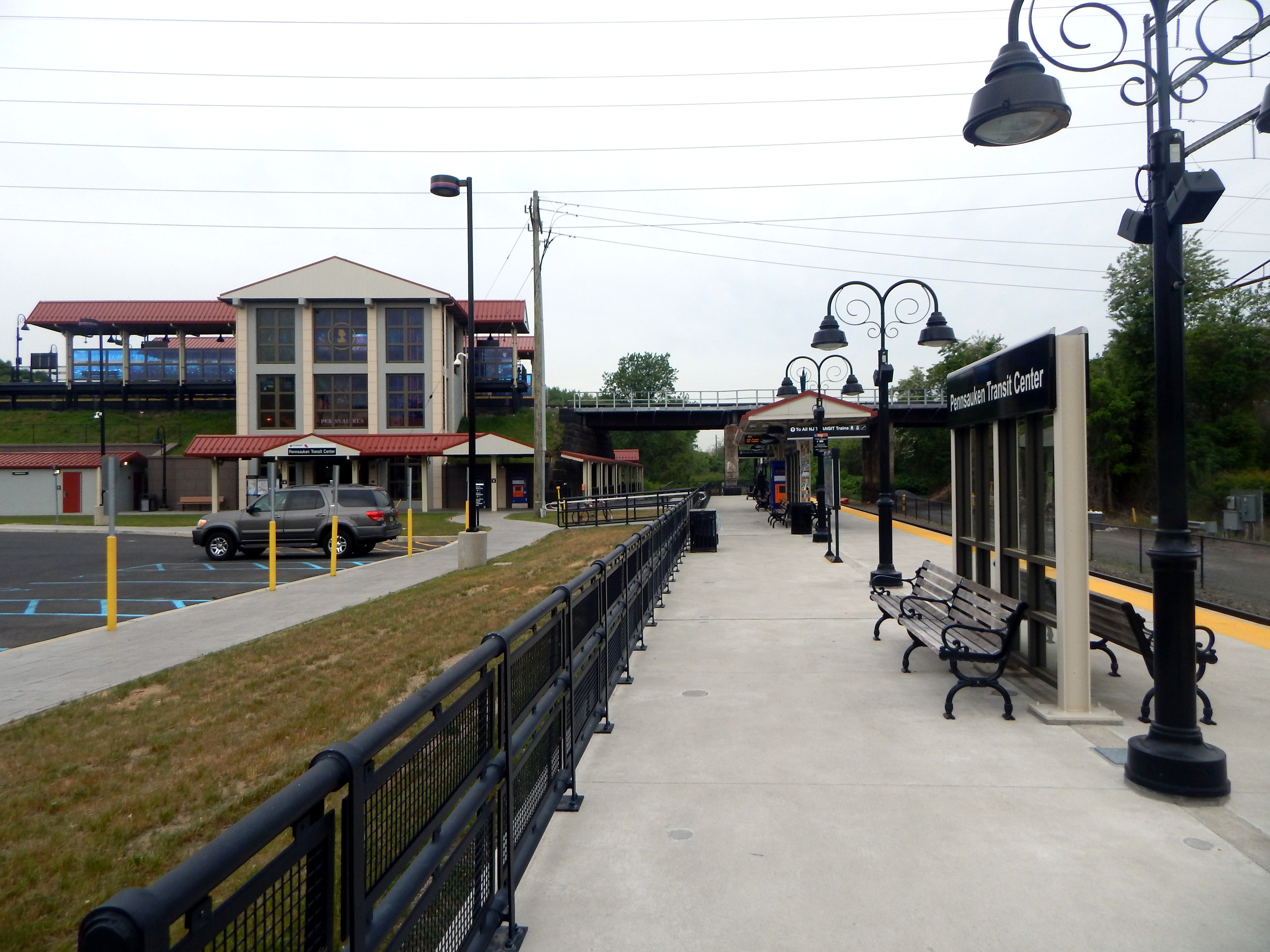 Pennsauken Transit Center from River Line platform, May 2015